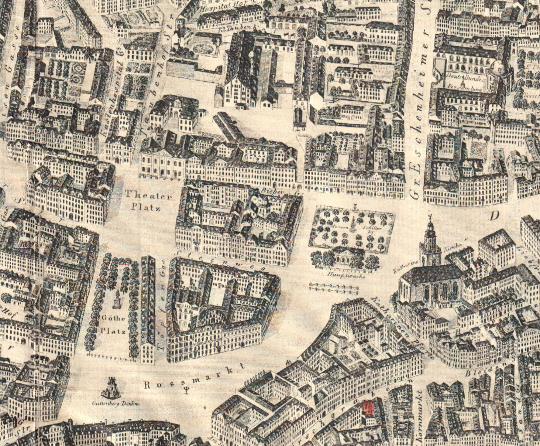 Details of the map of the city of Frankfurt am Main, Germany. City Center.